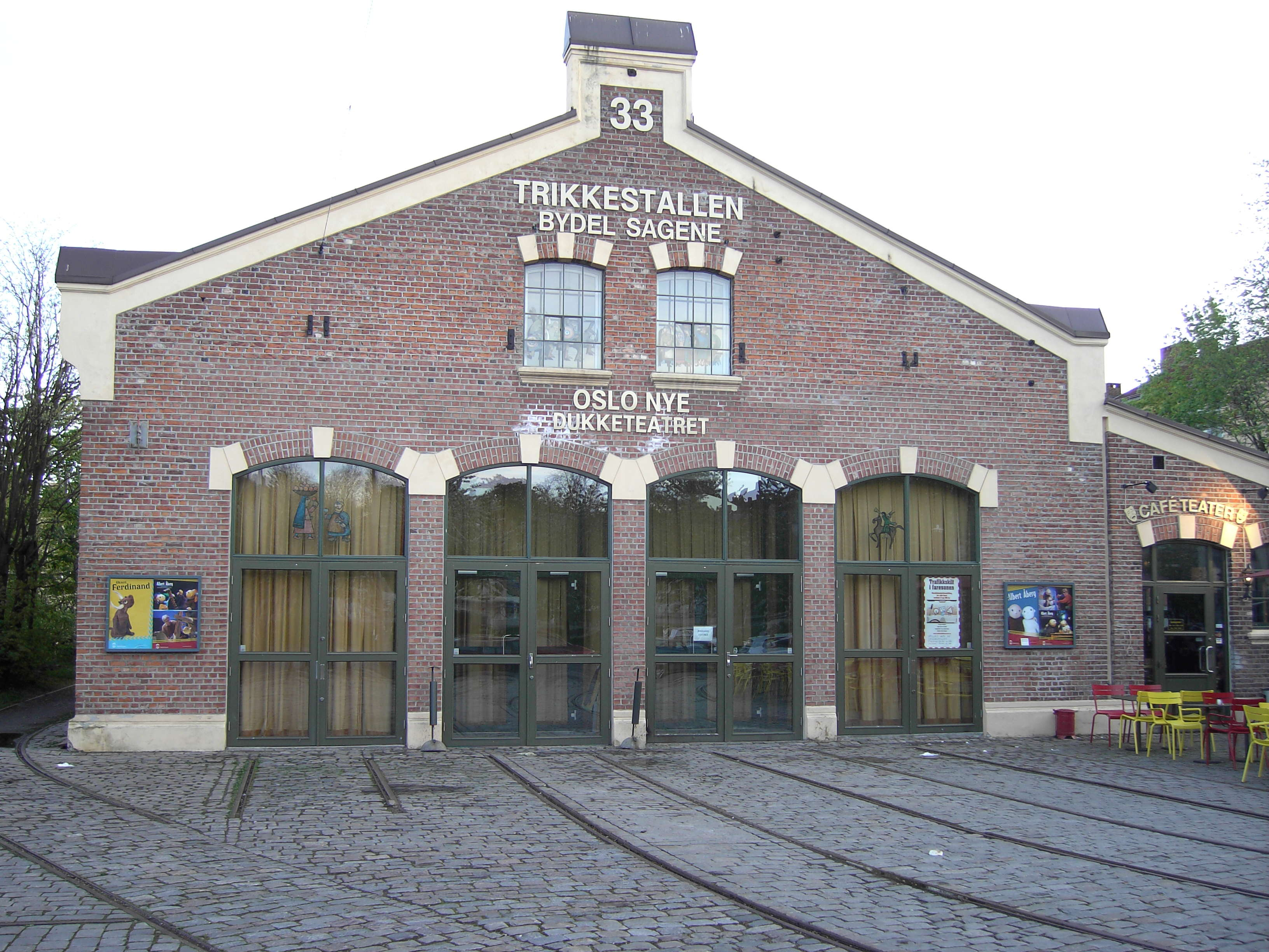 Torshov tram depot